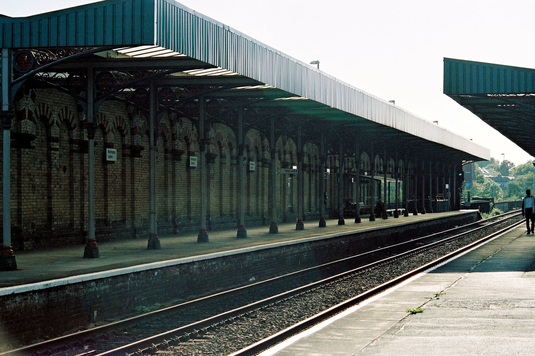 Warrington Central Station